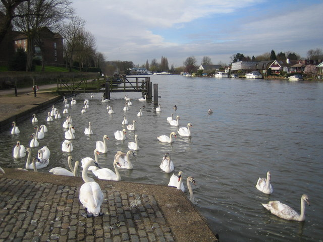 River Thames: The swans at Walton-on-Thames Every time I've tried counting them I've come up with a different answer! This is the River Thames, by the way, viewed looking upstream towards Walton Bridge and Walton Marina.